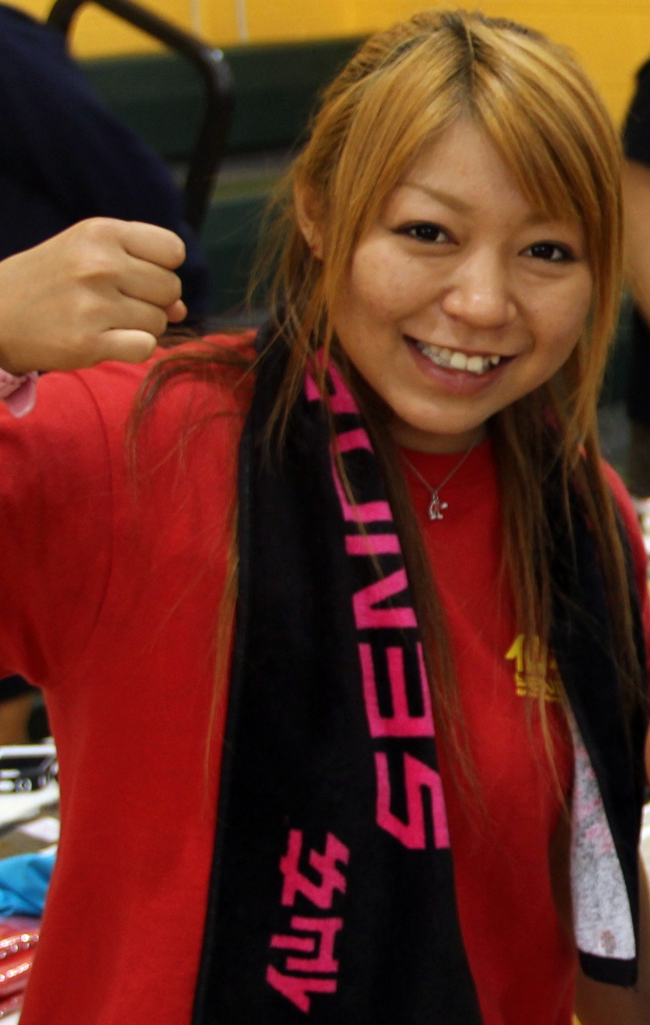 Professional wrestler Sendai Sachiko at Chikara King of Trios 2012 Fan Conclave